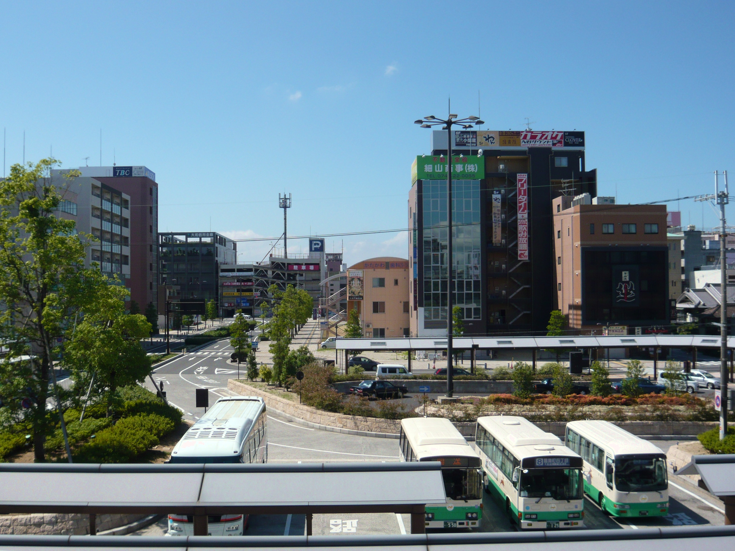 大和八木駅南口 近鉄大阪線ホームより South square of Yamato-Yagi station 2011.7.17